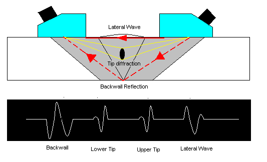 The basic setup of a standard TOFD